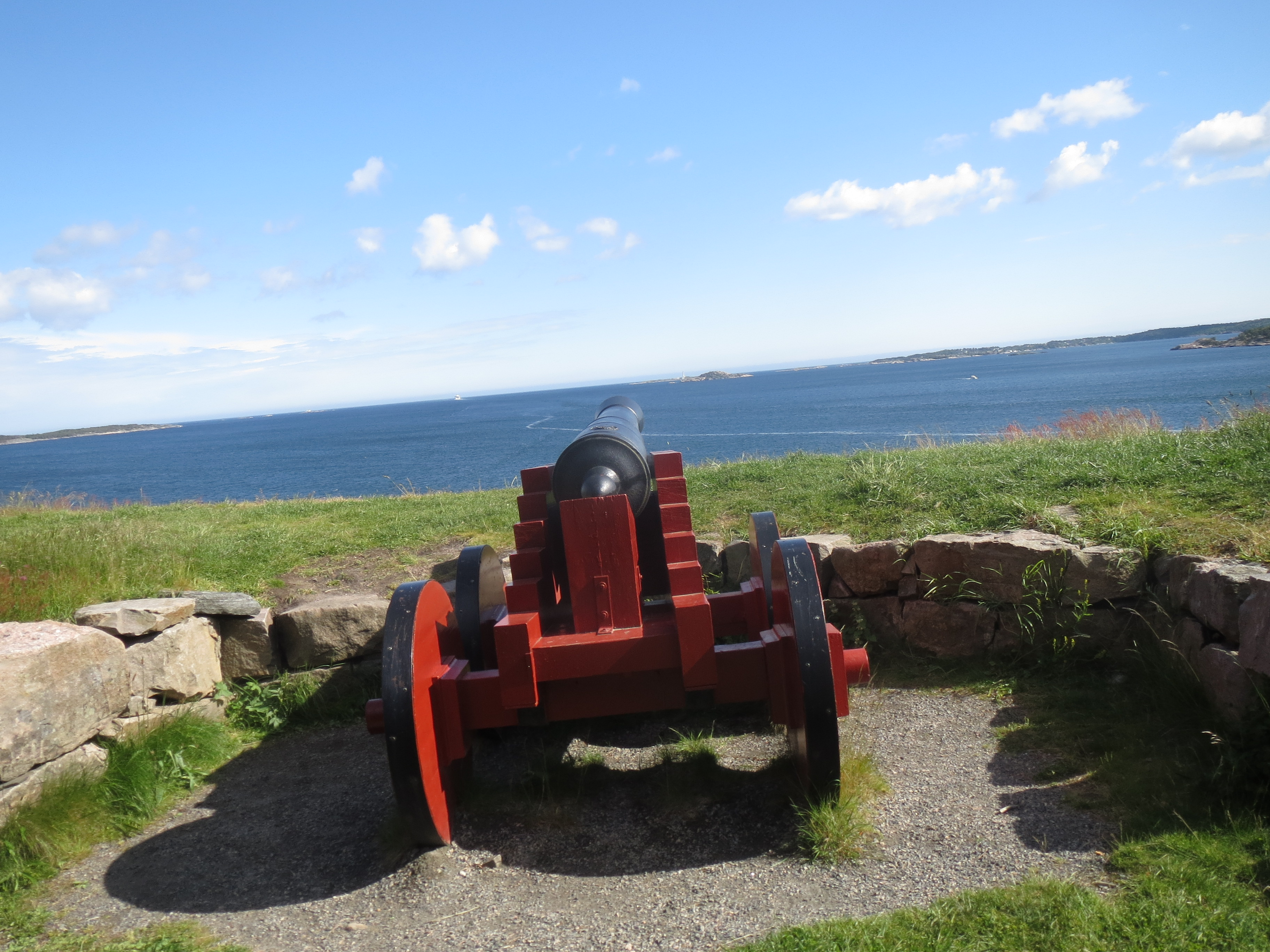 Odderøya - Søndre batteri, fortification from the Napolionic war